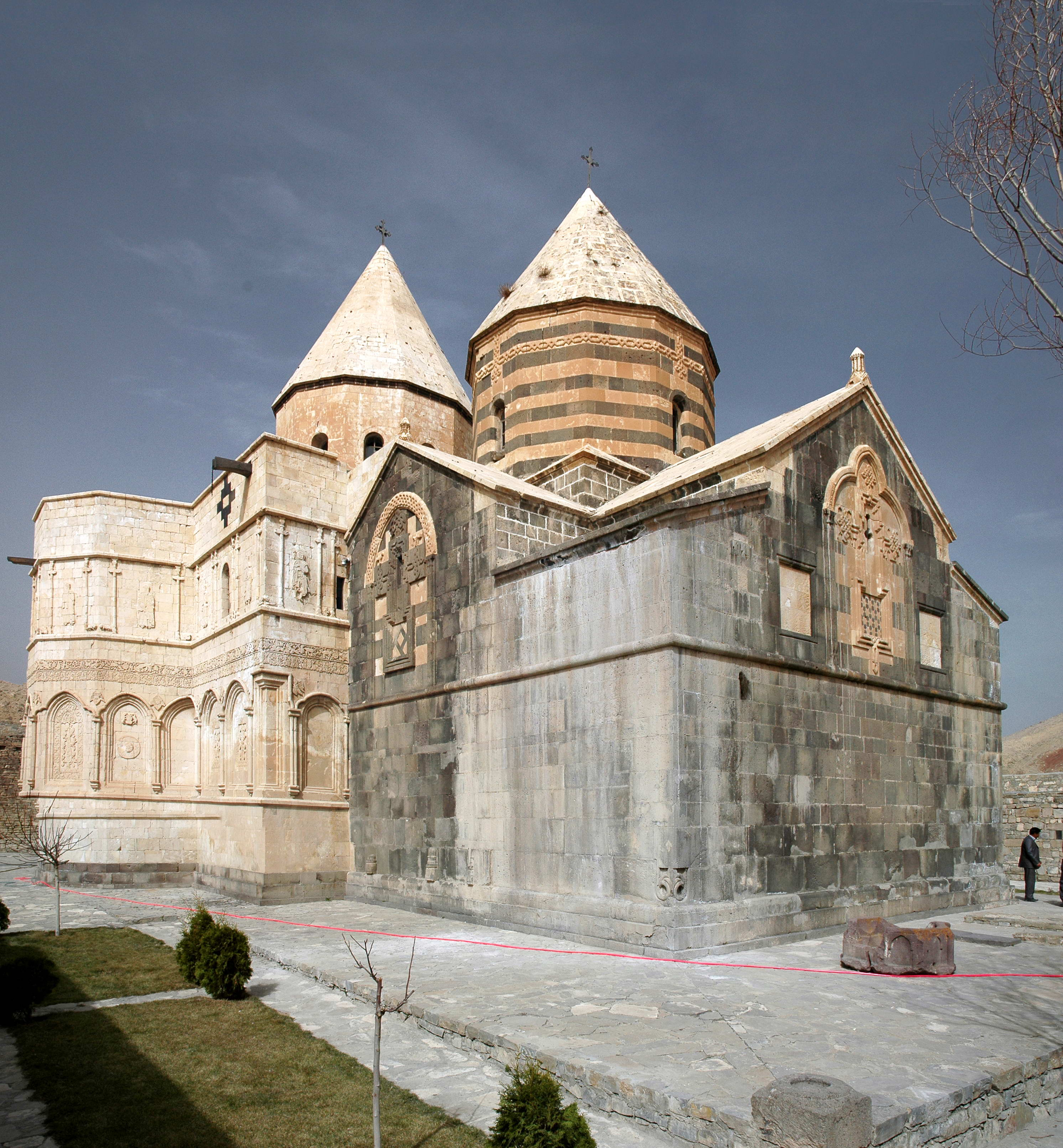 Closeup of the Armenian Monastery of Saint Thaddeus in northwestern Iran.